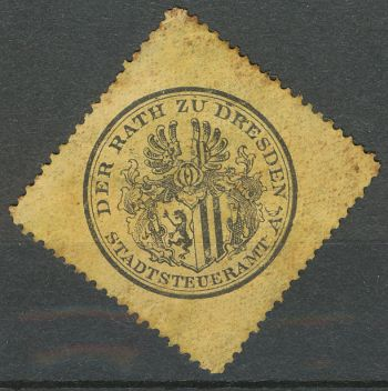 sealing stamp of the city of Dresden from about 1900.